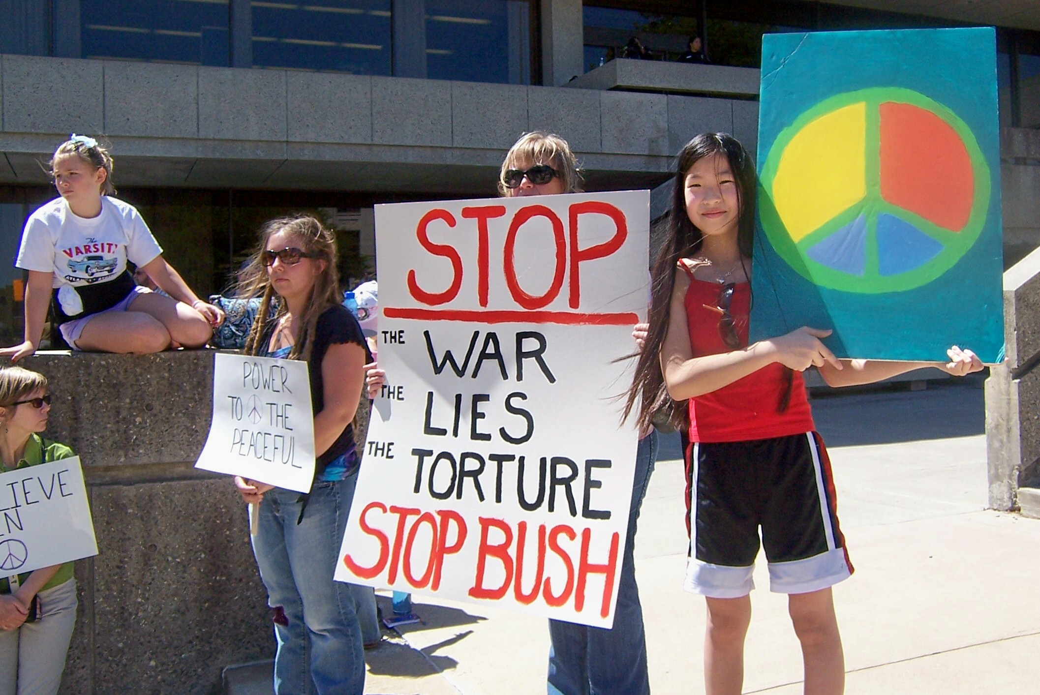 Girl with sign she made and her proud caring mom.